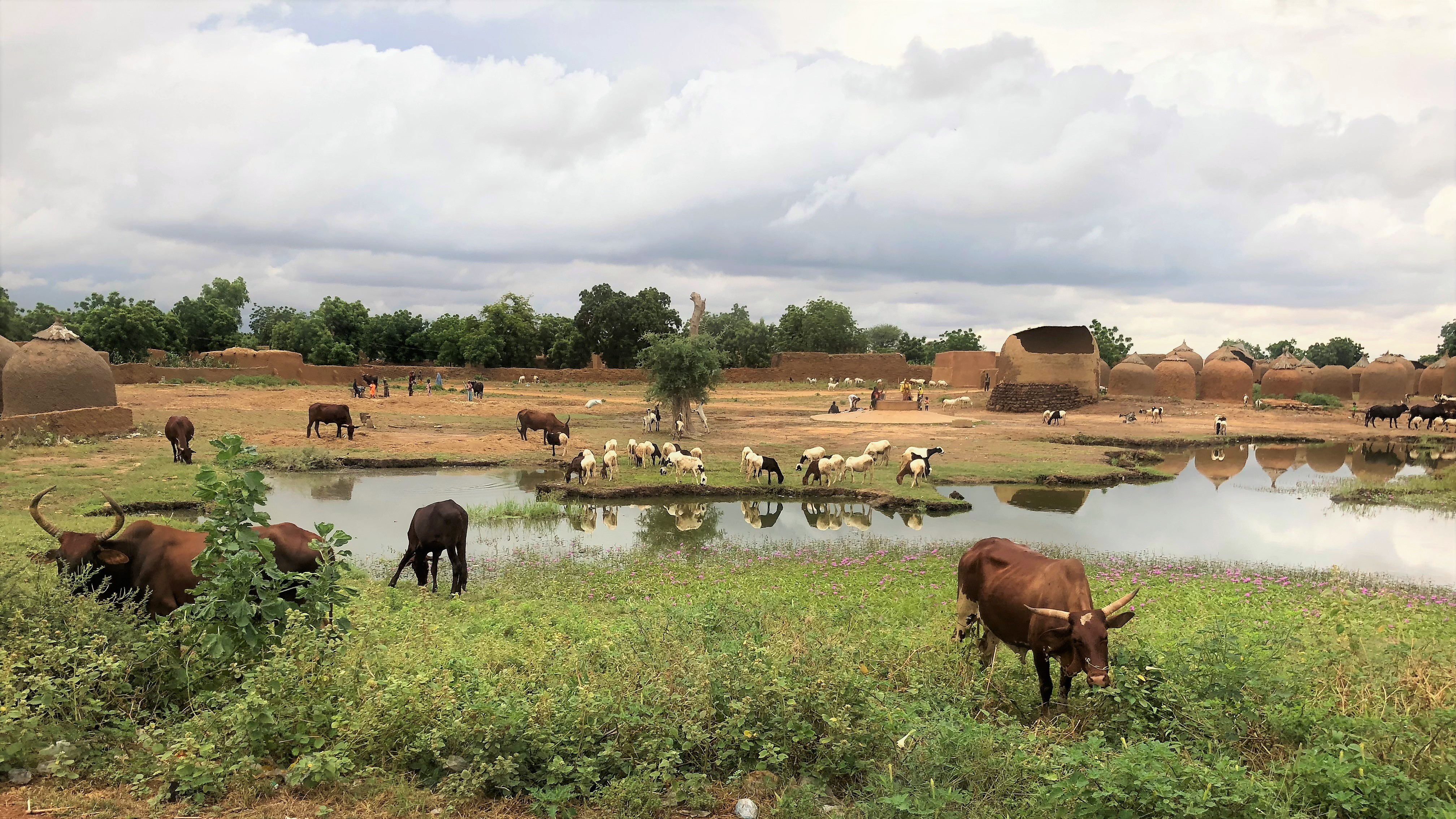 Roadside view of Salewa in Niger, with cattle and the typical Haussa dome-shaped grain storage huts (Tahoua region; Birni N'Konni department, Malbaza commune).